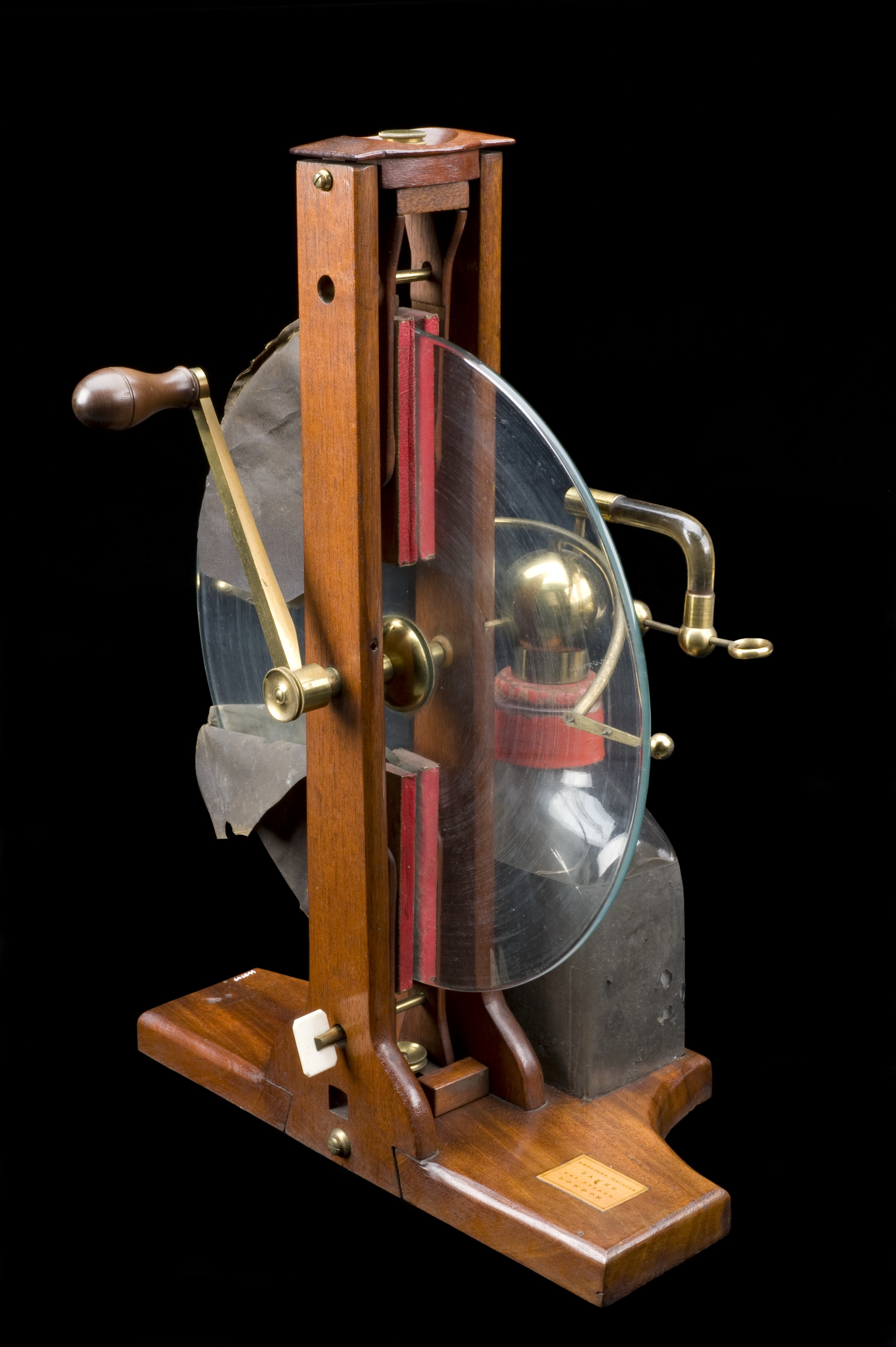 Electrostatic machine by Robert Banks, 1801-1820, English. View of the back, 3/4 angle. Black background. Wellcome Images